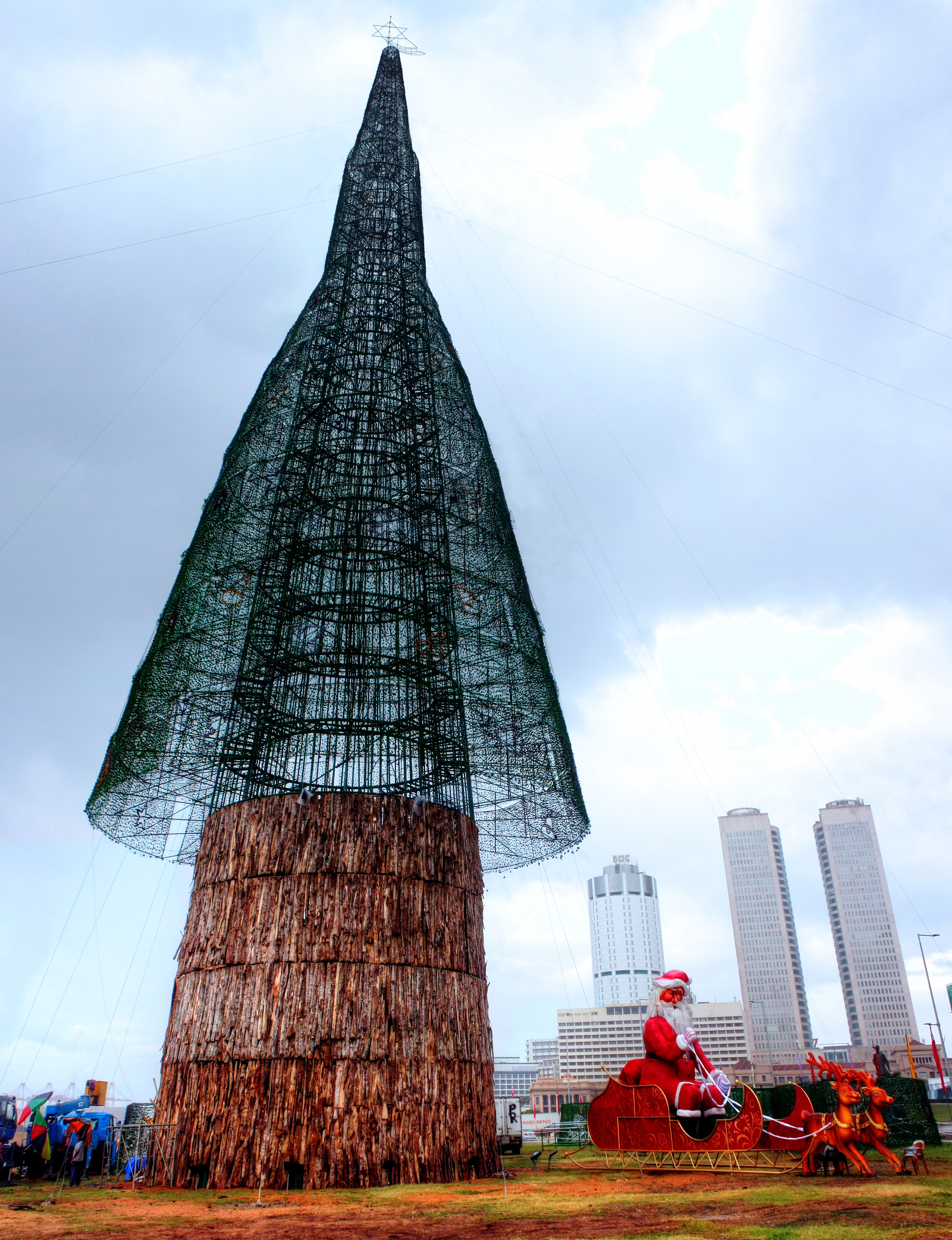 Sri Lankan Christmas tree, 238 feet (73 m) tall, the world’s tallest artificial Christmas tree on the Galle Face Green in Colombo. HDR applied.